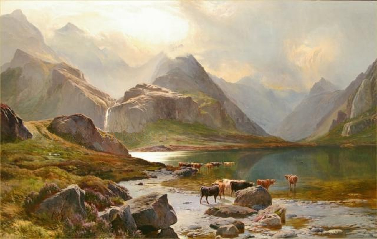 Loch Coruisk, Isle of Skye Oil on canvas, 45 1/2 x 71 1/2 inches